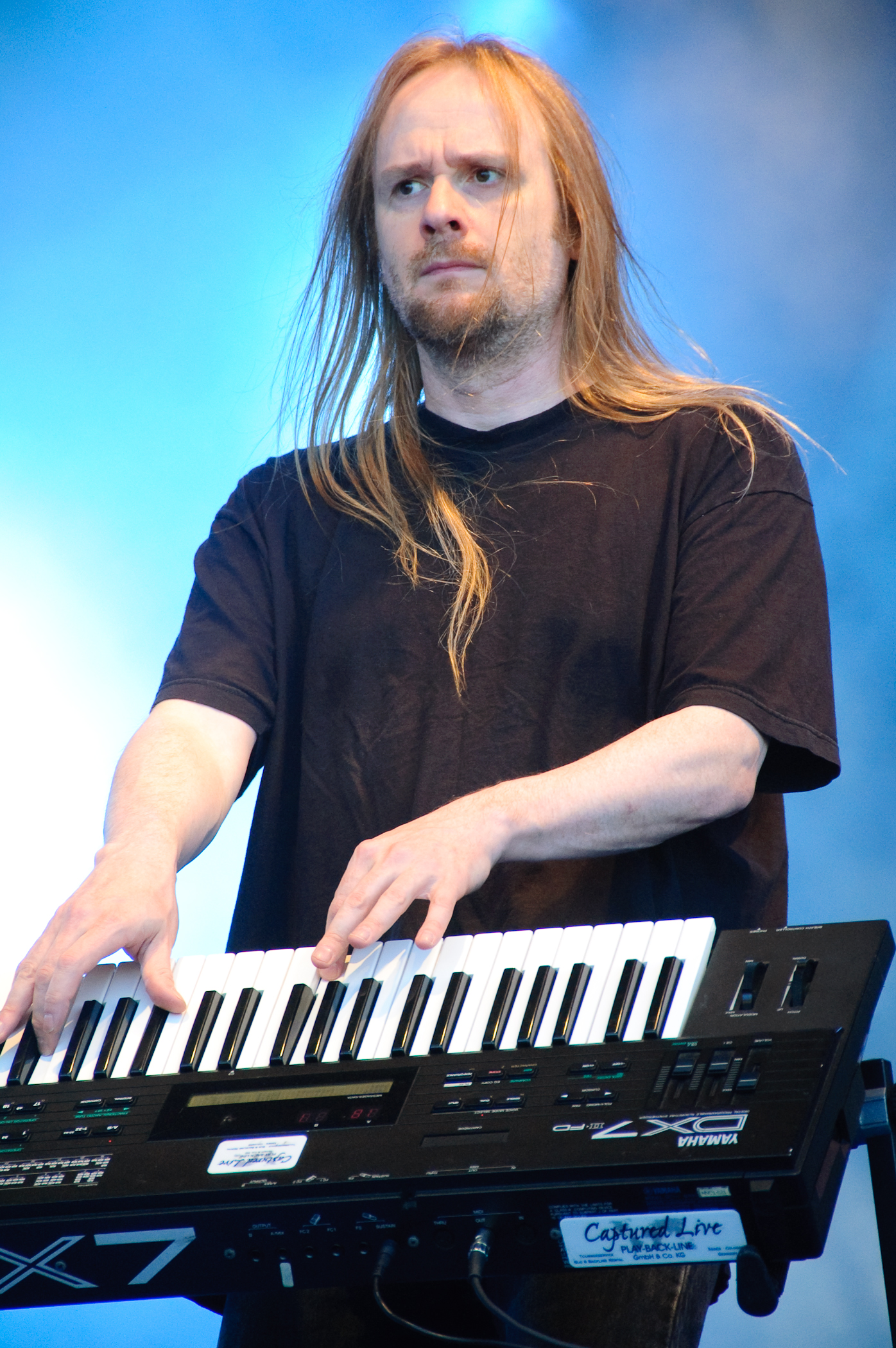 Keyboardist Jens Johansson of Stratovarius performing at the Ilosaarirock 2009 festival in Joensuu Finland.